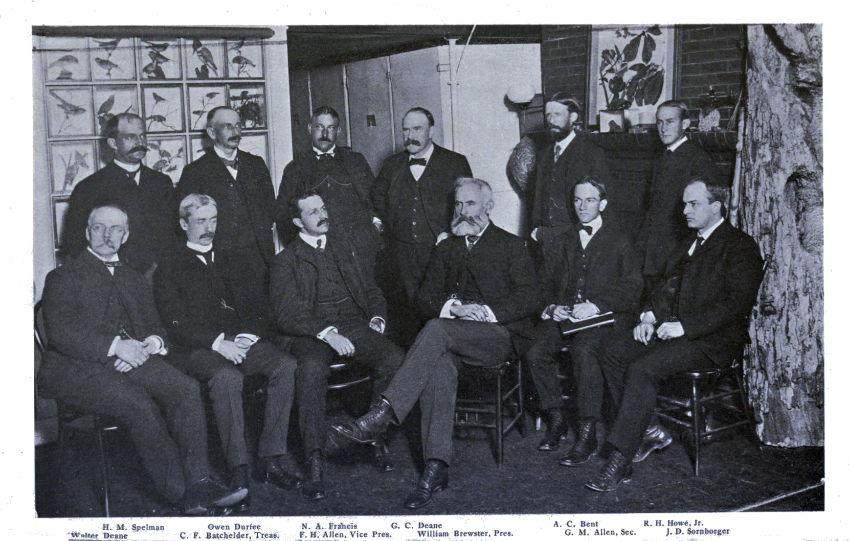 Members of the Nuttall Ornithological Club including A C Bent and William Brewster.